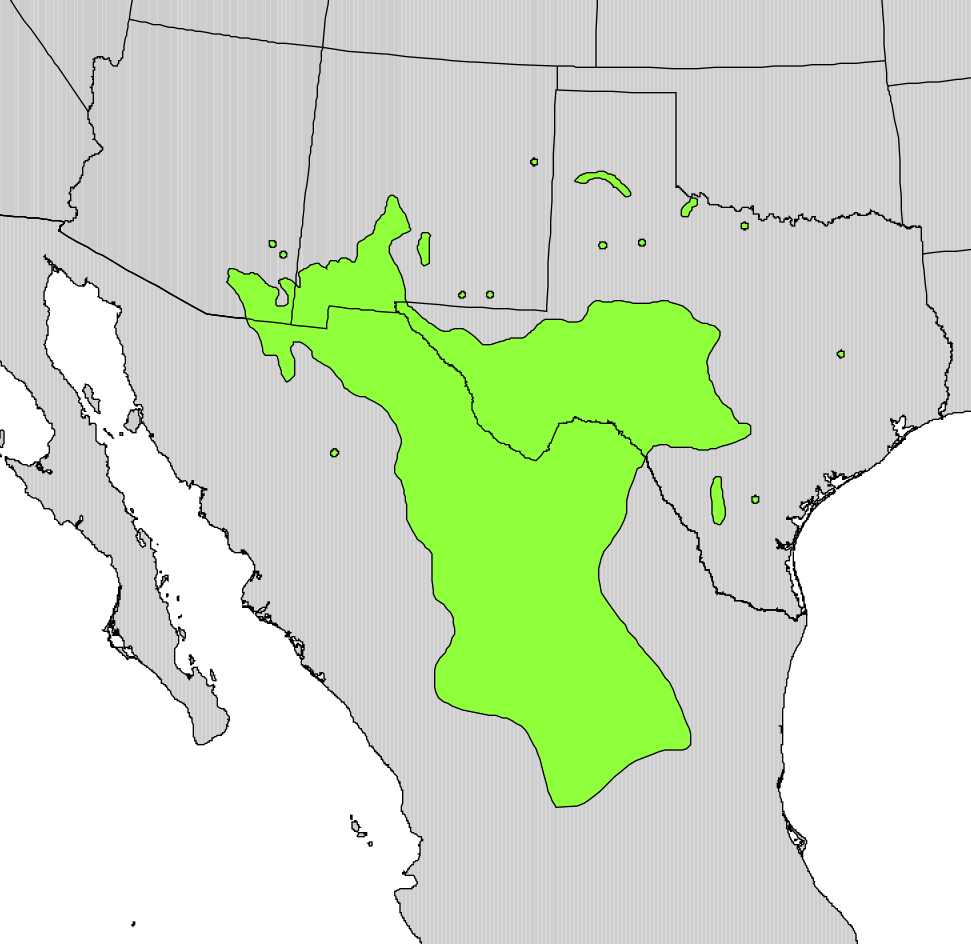 Range map of Rhus microphylla